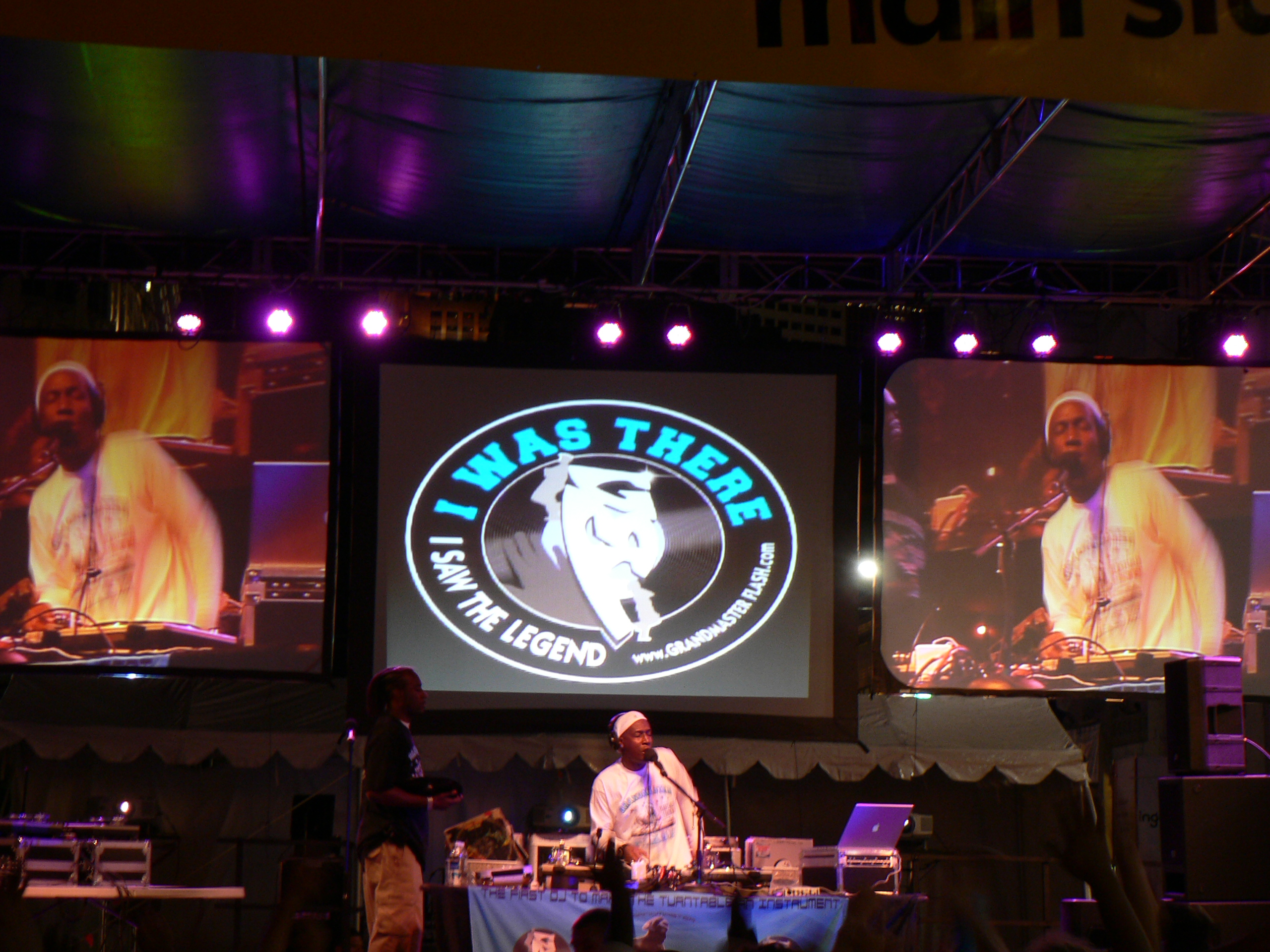 Image is listed under Attribution and Share Alike rules on Flickr by user 'stu_spivack'. Found on Flickr at